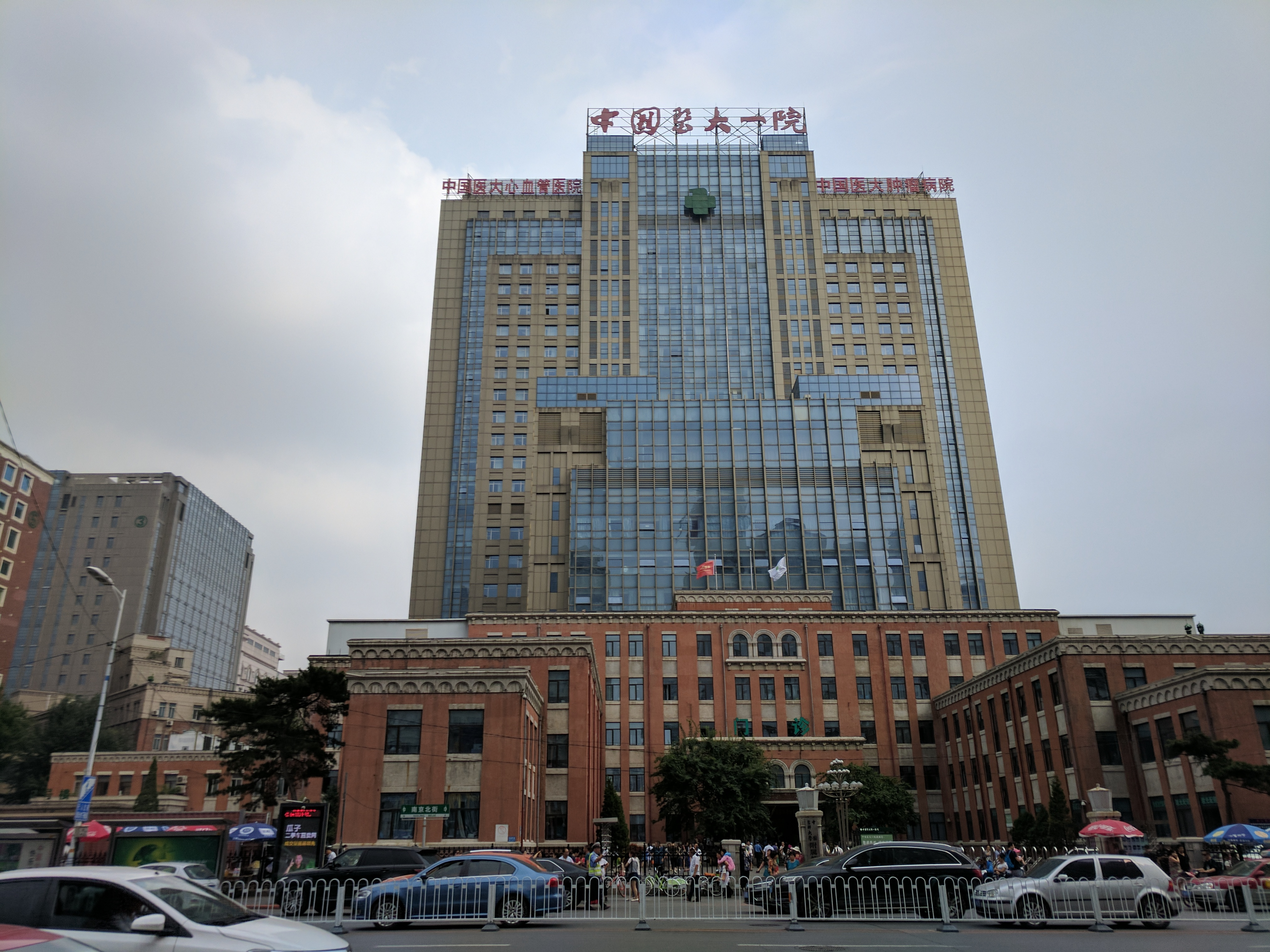 The First Hospital of China Medical University in Shenyang. Photoed on Jul 14th, 2017, the next day Liu Xiaobo dies.